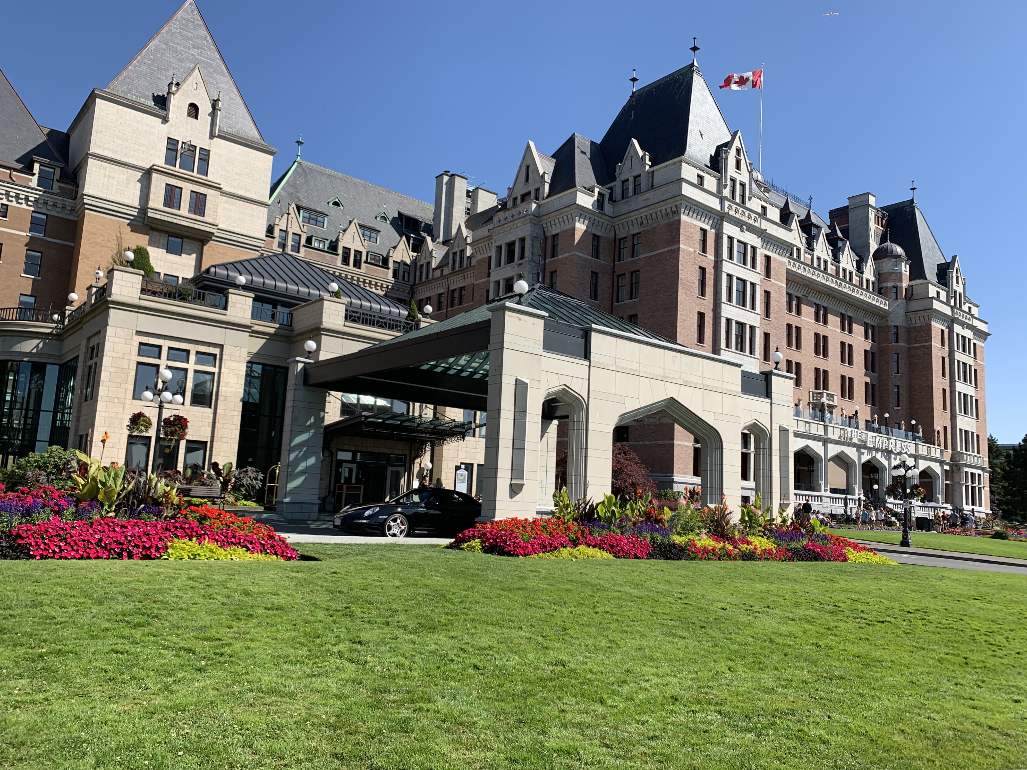 現地時間8月8日 15時51分撮影